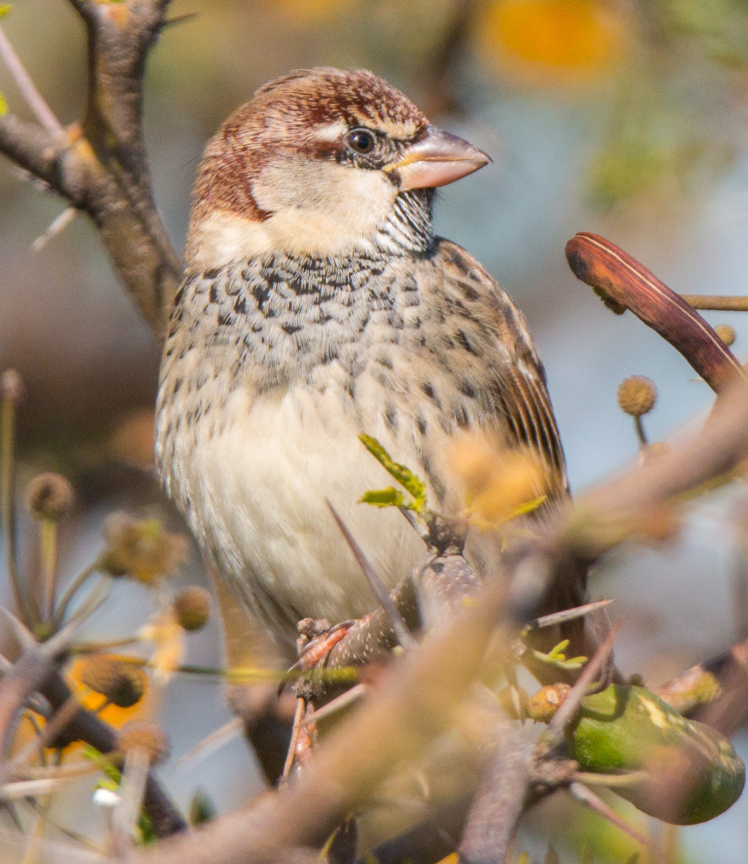 Passer hispaniolensis, open fields near Ashkelon, Israel.